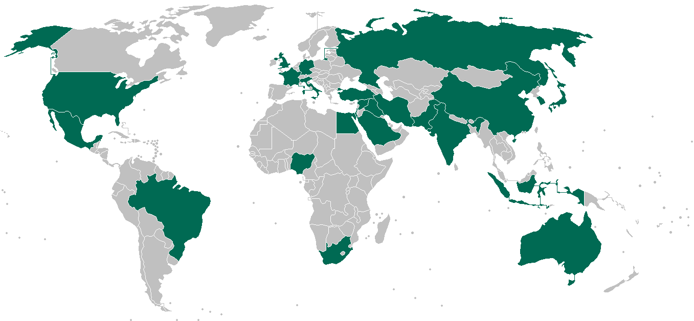 Regional Power article.